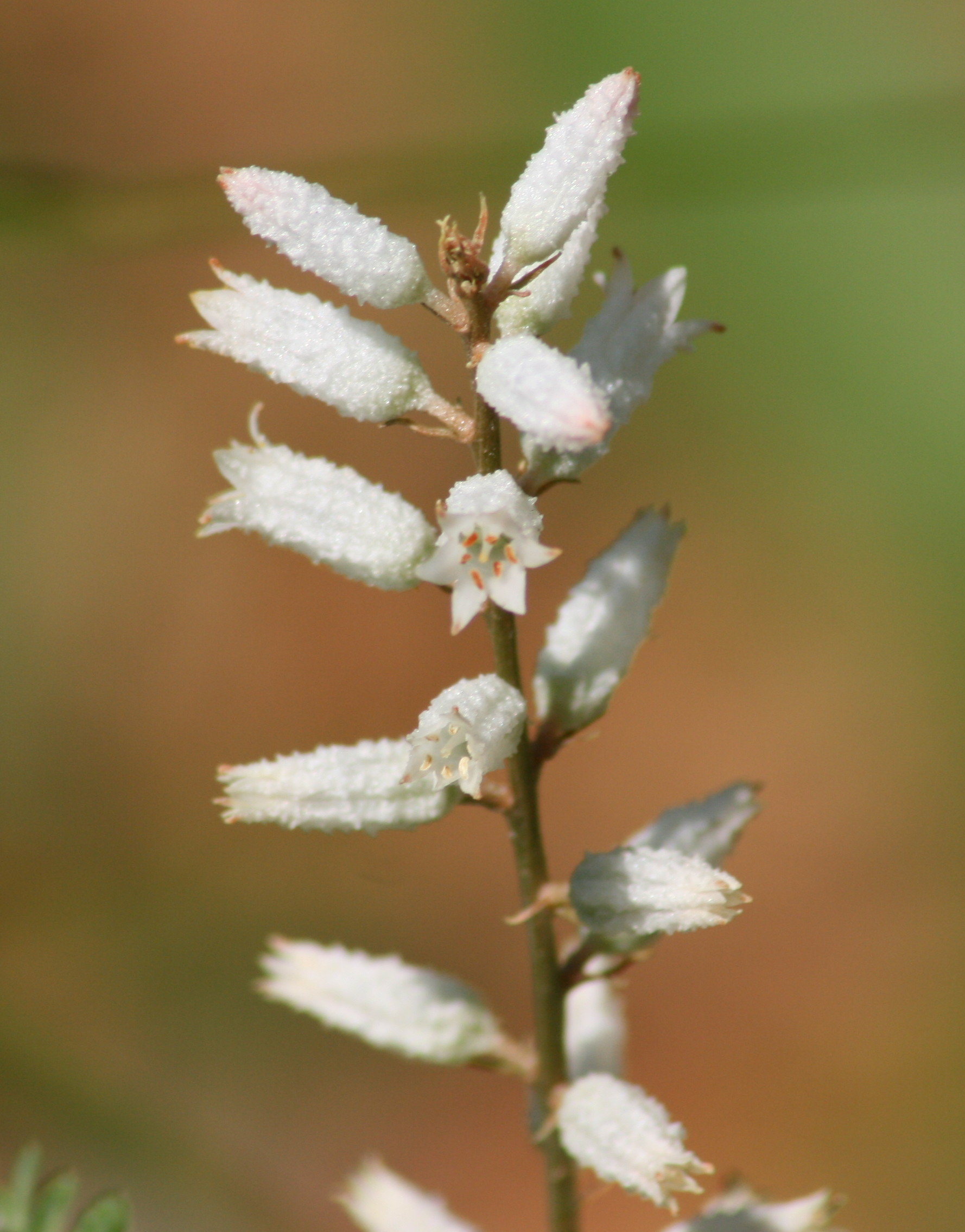 Colicroot, Aletris farinosa